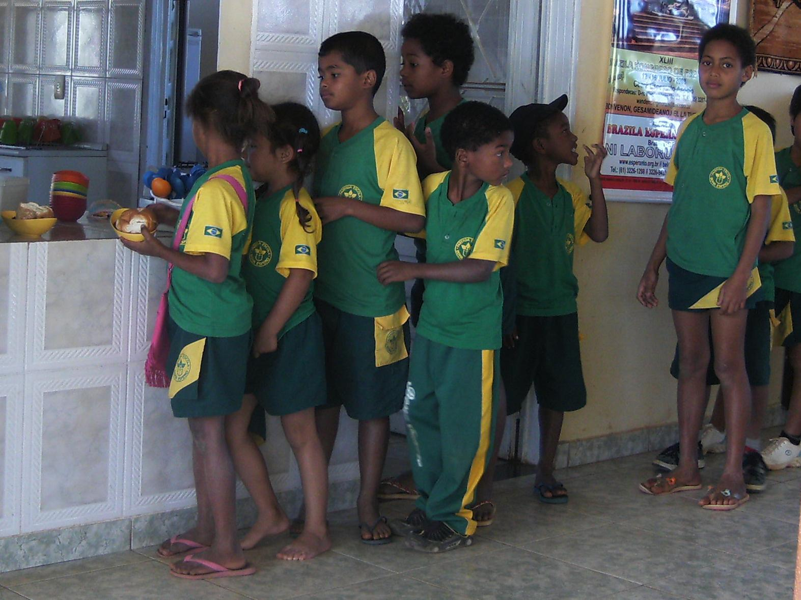 Kids in schooluniform stand in line to get their lunch; Bona Espero School, Alto Paraíso de Goiás, Brazil